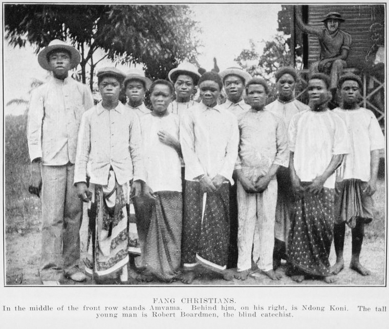 Fang Christians. In the middle of the front row stands Amvama. Behind him, on his right, is Ndong Koni. The tall young man is Robert Boardmen, the blind catechist. From The fetish folk of West Africa (published [c1912] ).